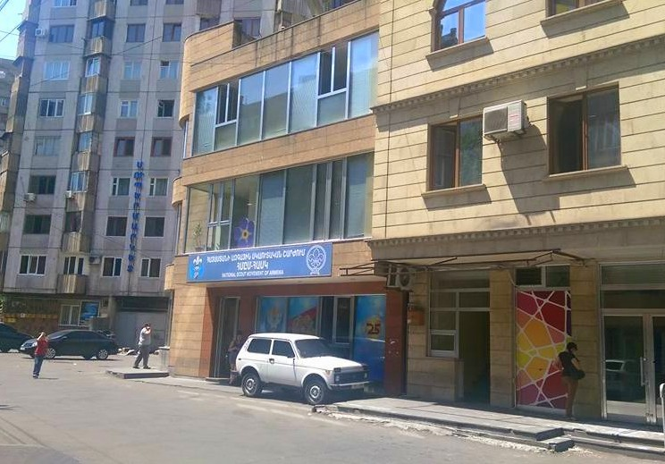 National Scout Movement of Armenia building in Yerevan